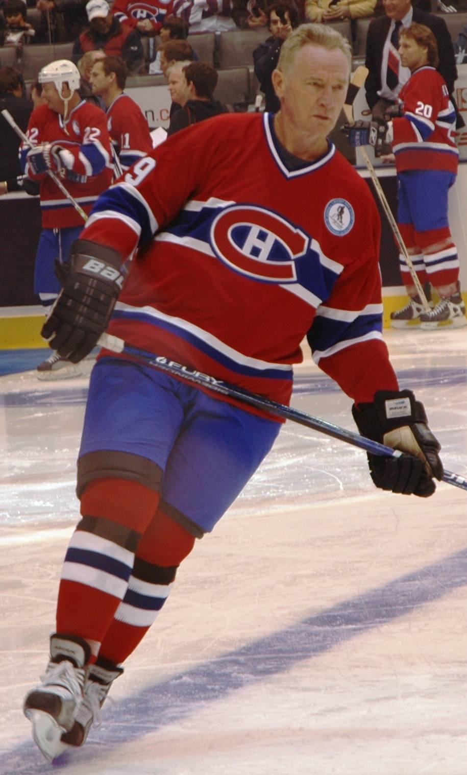 Larry Robinson played with Montreal Canadiens Alumni at the Legends Clasic in Toronto